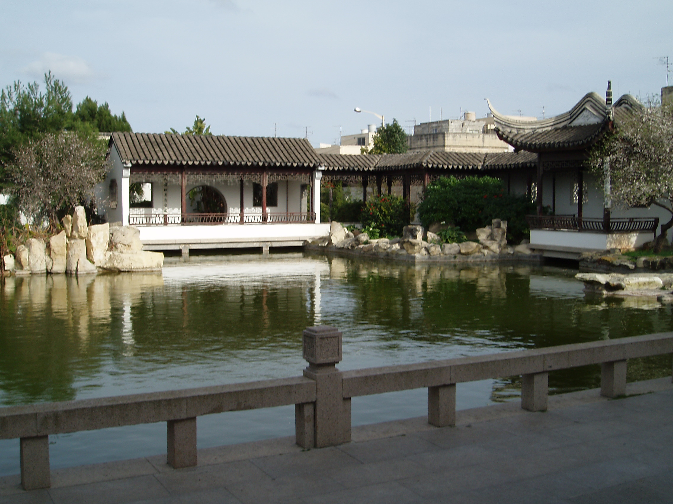 The Chinese Garden at Santa Lucija, Malta.